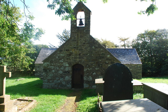 St Tudwen's church, Llandudwen, Gwynedd